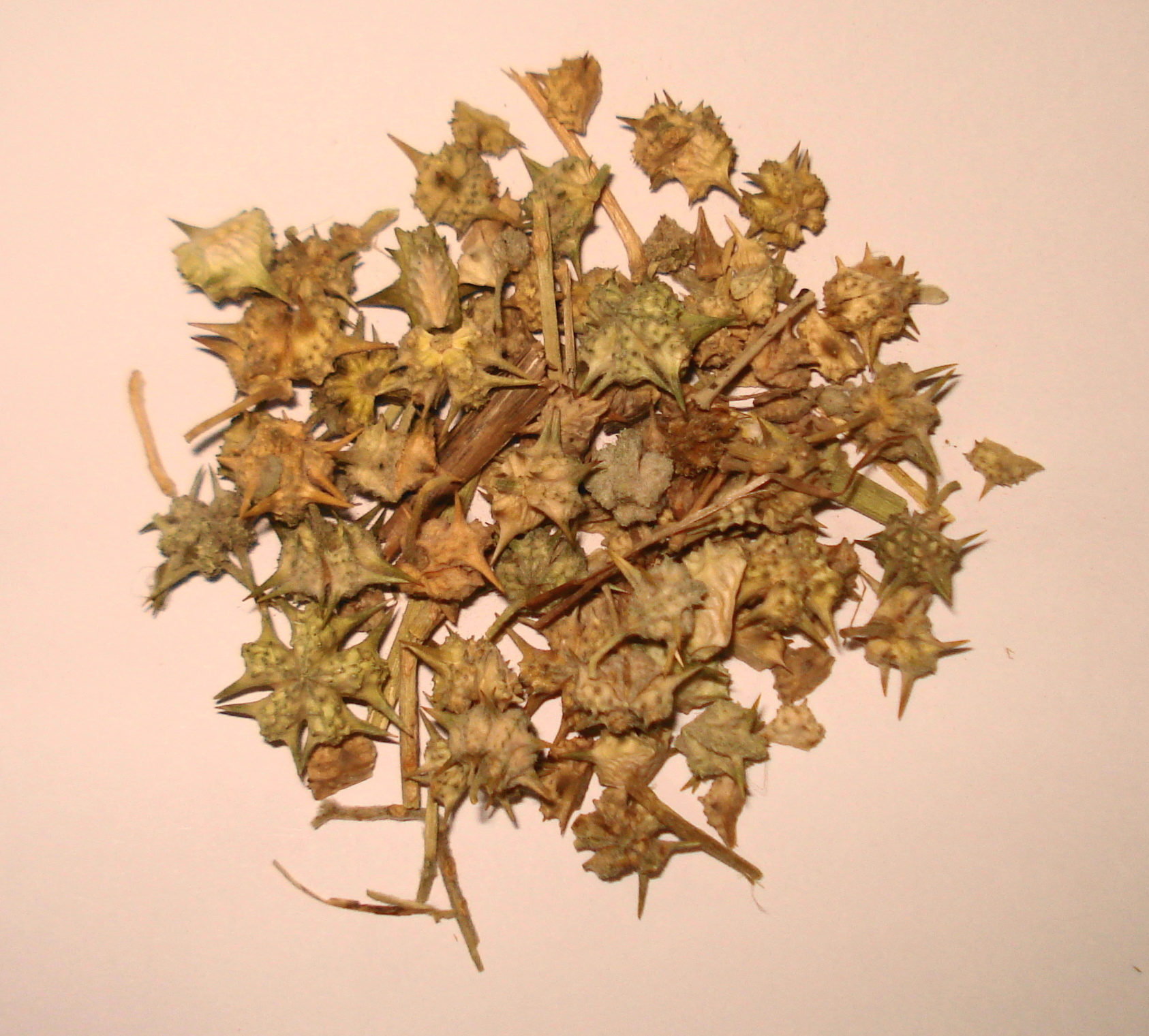 Pakhra in Punjabi, Gokhru in Hindi